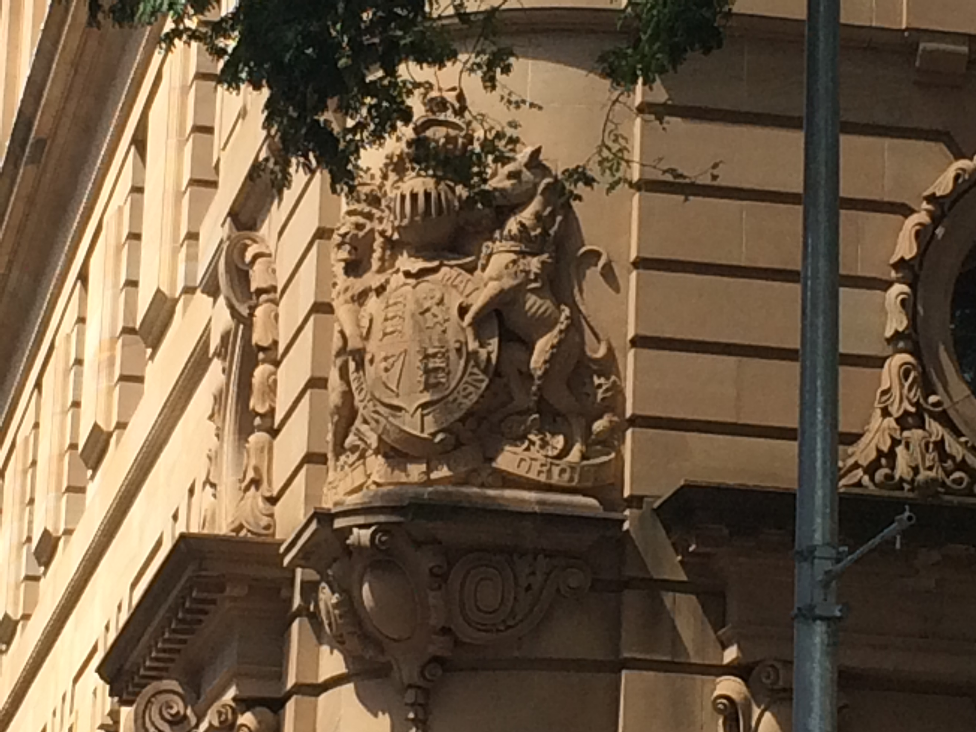 Close-up detail of Family Services Building, 2015